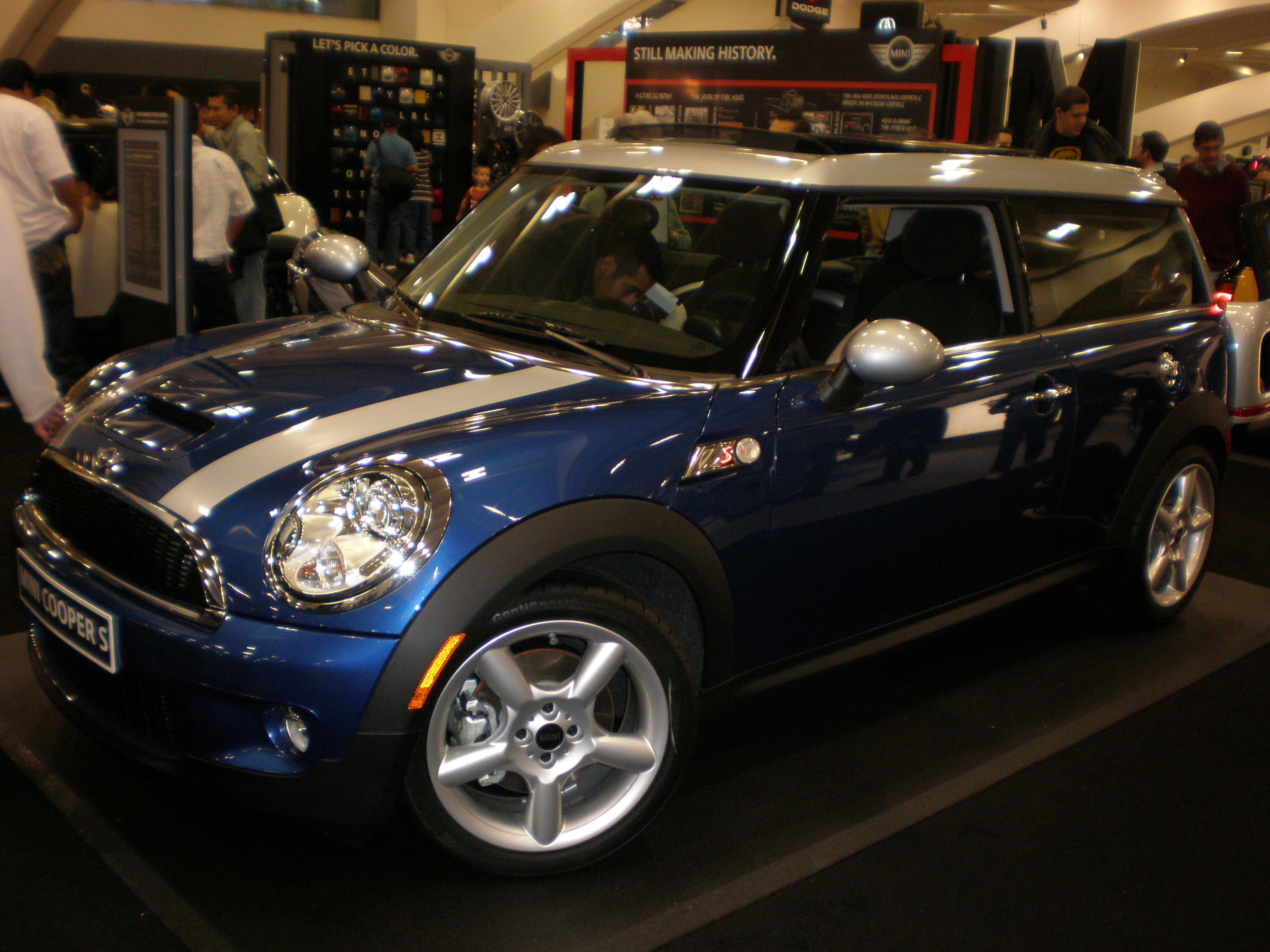 A 2009 Mini Cooper S Clubman at the 2008 San Francisco International Auto Show.